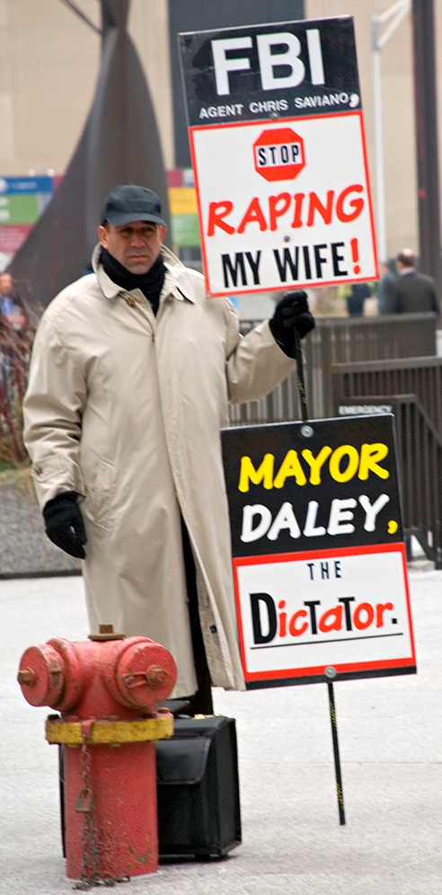 As described in the comments to this posting, this man has a beef with FBI agent Chris Saviano. Chicago Chain - a different part of Daley Plaza (crop from original)